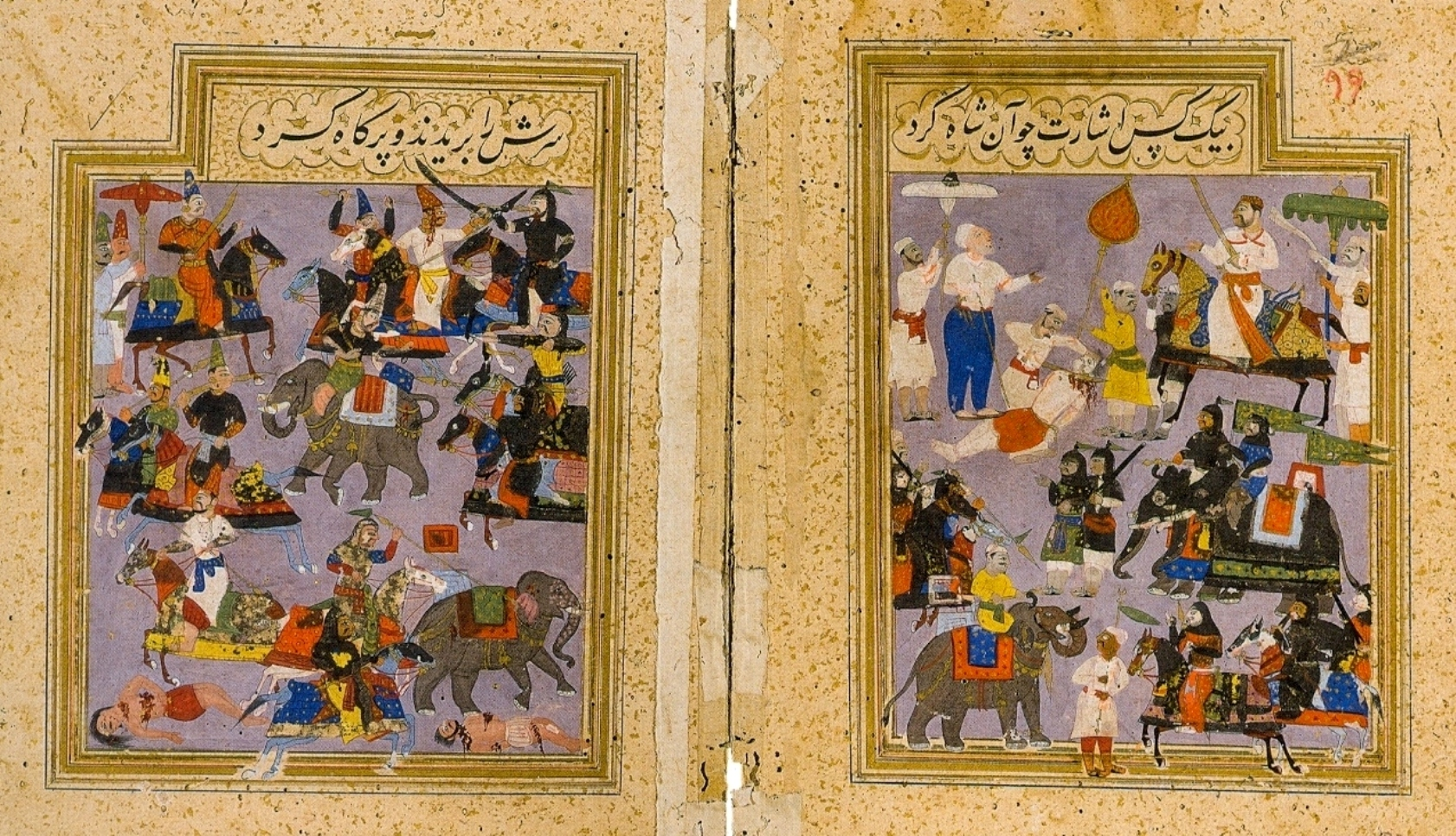 Hussain Nizam Shah I and the coalition of Deccan Sultanates decisively defeat and execute Aliya Rama Raya.Folios 46a and 46b from manuscript Ta'rif-i Husain Shahi (Chronicle of Husain Shah). In folio 46a Battle of Talikota. In folio 46b Husain Shah (riding a horse) orders the decapitation of Ramaraya (reigned 1542-65), the defeated ruler of Vijaianagara.